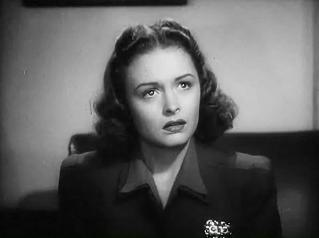 Cropped screenshot of Donna Reed from the trailer for Shadow of the Thin Man